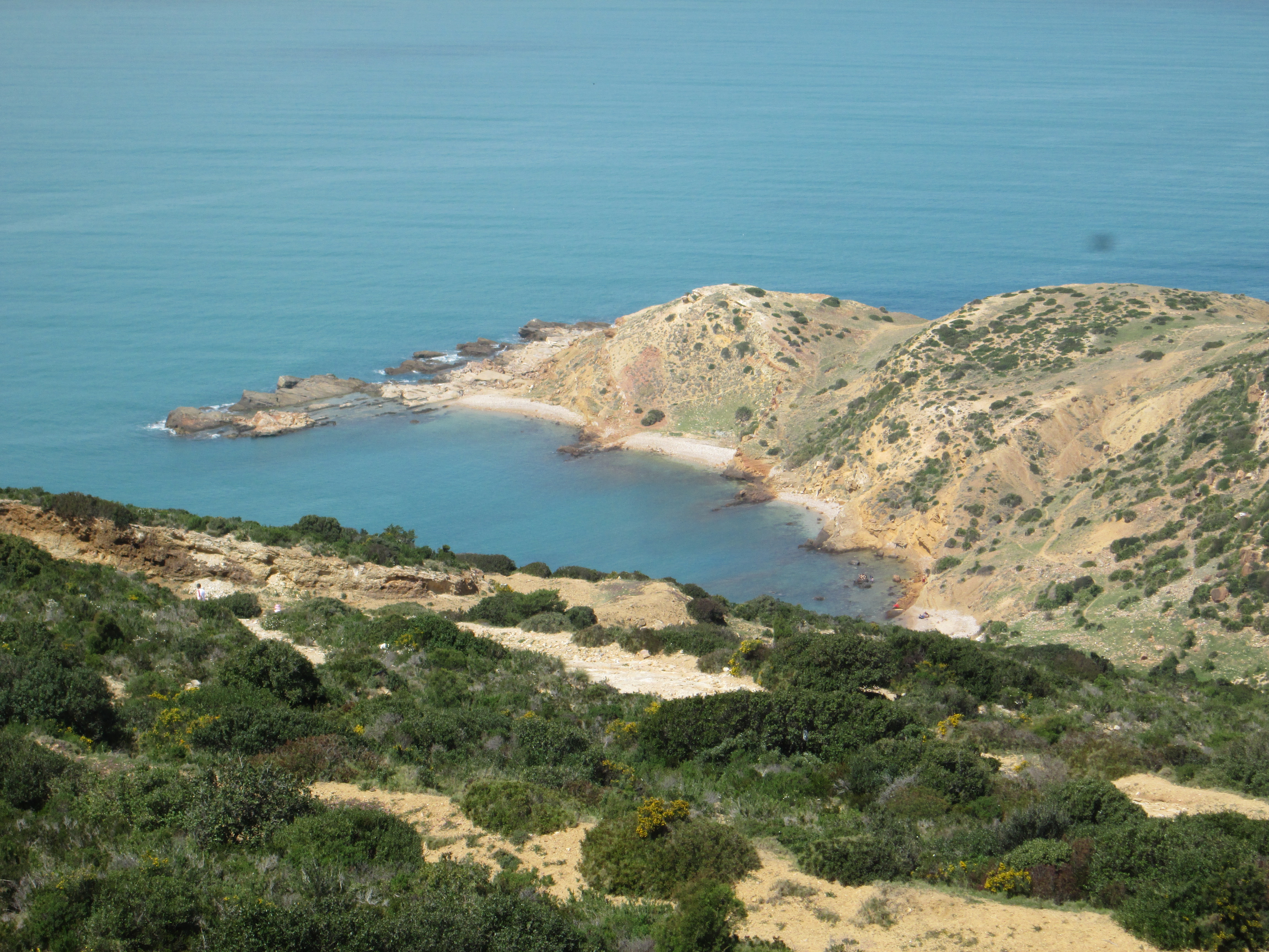 korbous